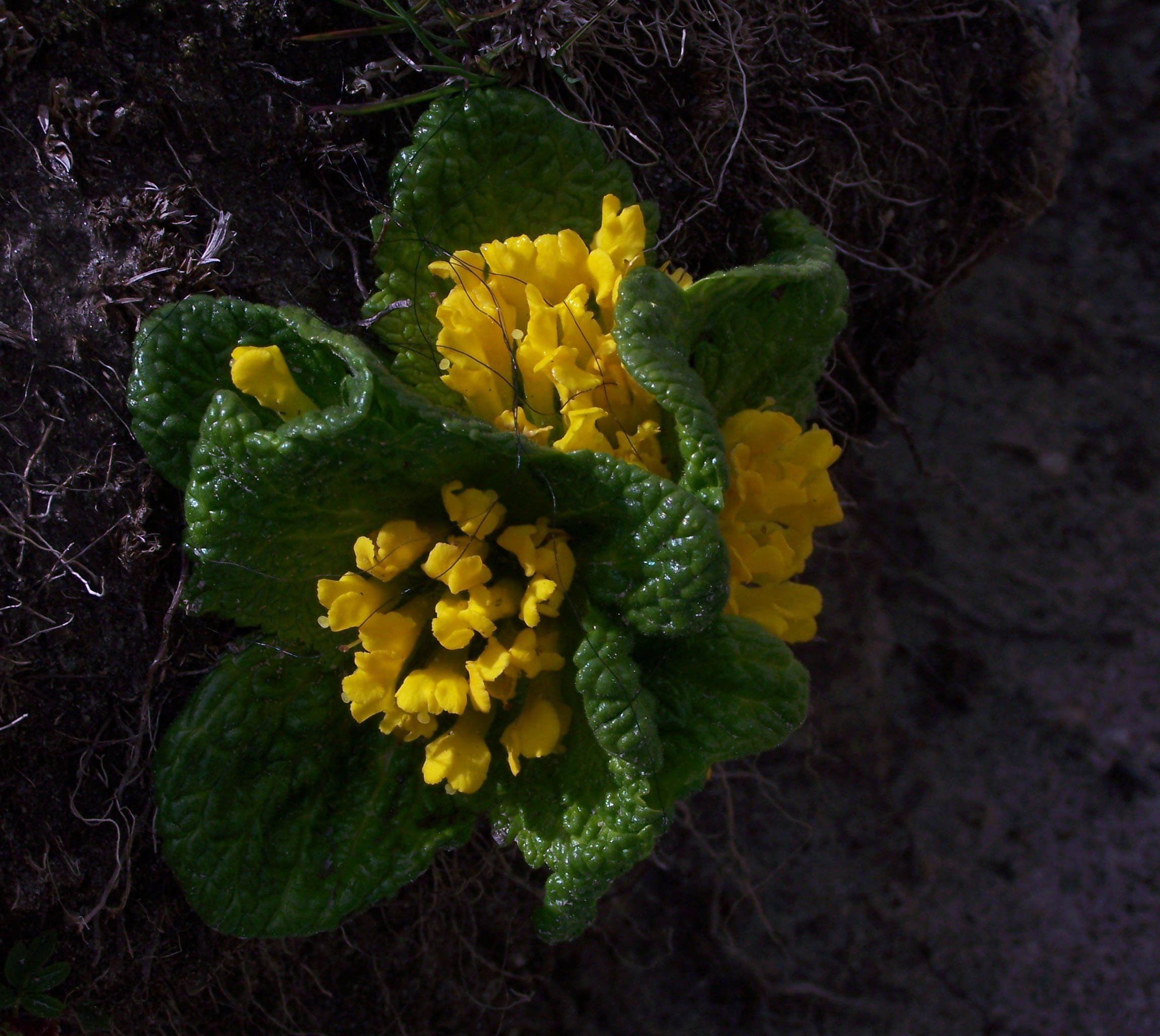 See User:Woudloper/Himalayan flora. Oreosolen wattii, July, 5100 m, Gorak Shep, Khumbu region, Nepal.